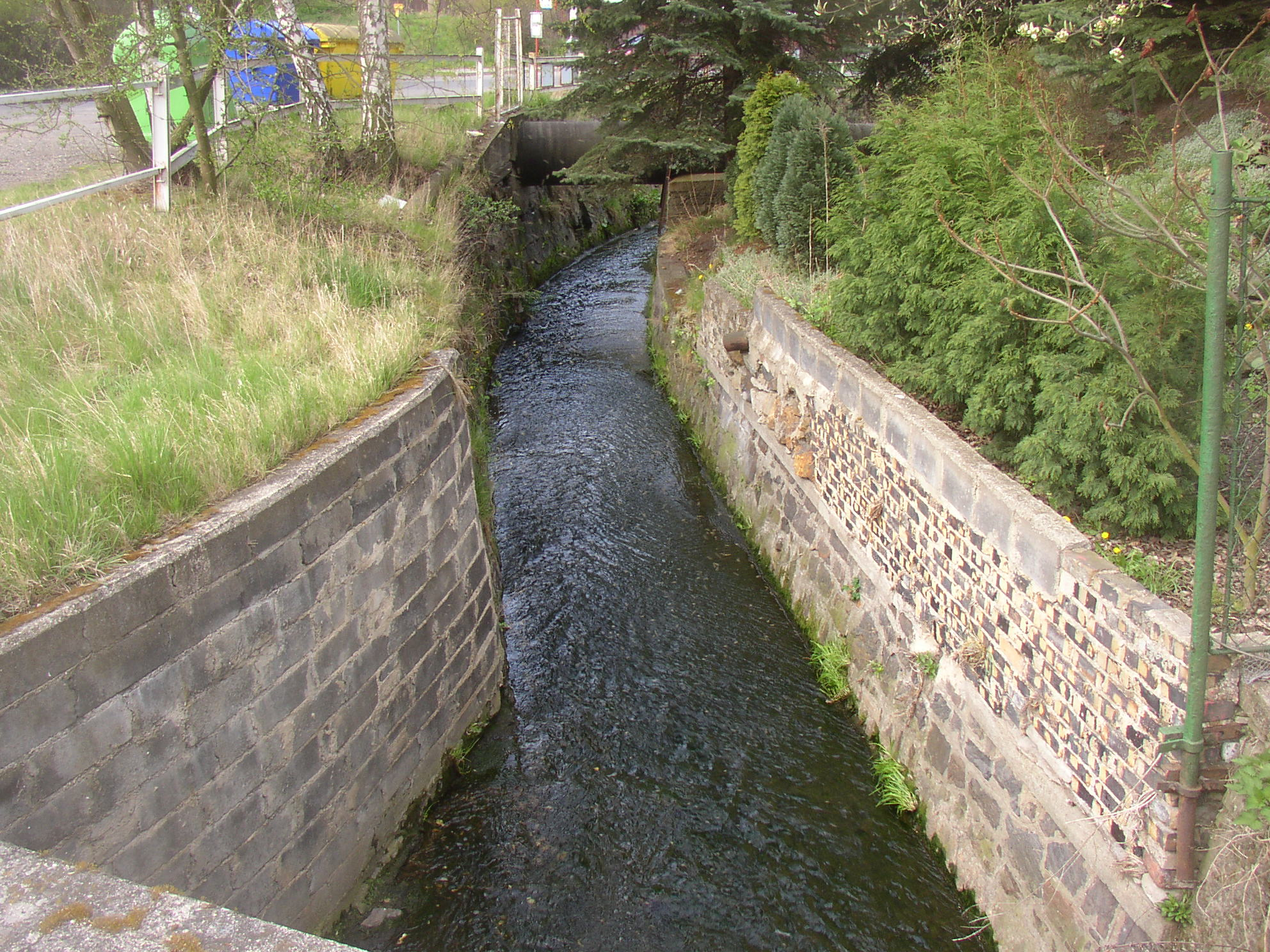 The Dřetovický potok stream in Vrapice, a suburb of Kladno city, Czech Republic. A view downstream from a small bridge in vicinity of VHS bus stop.